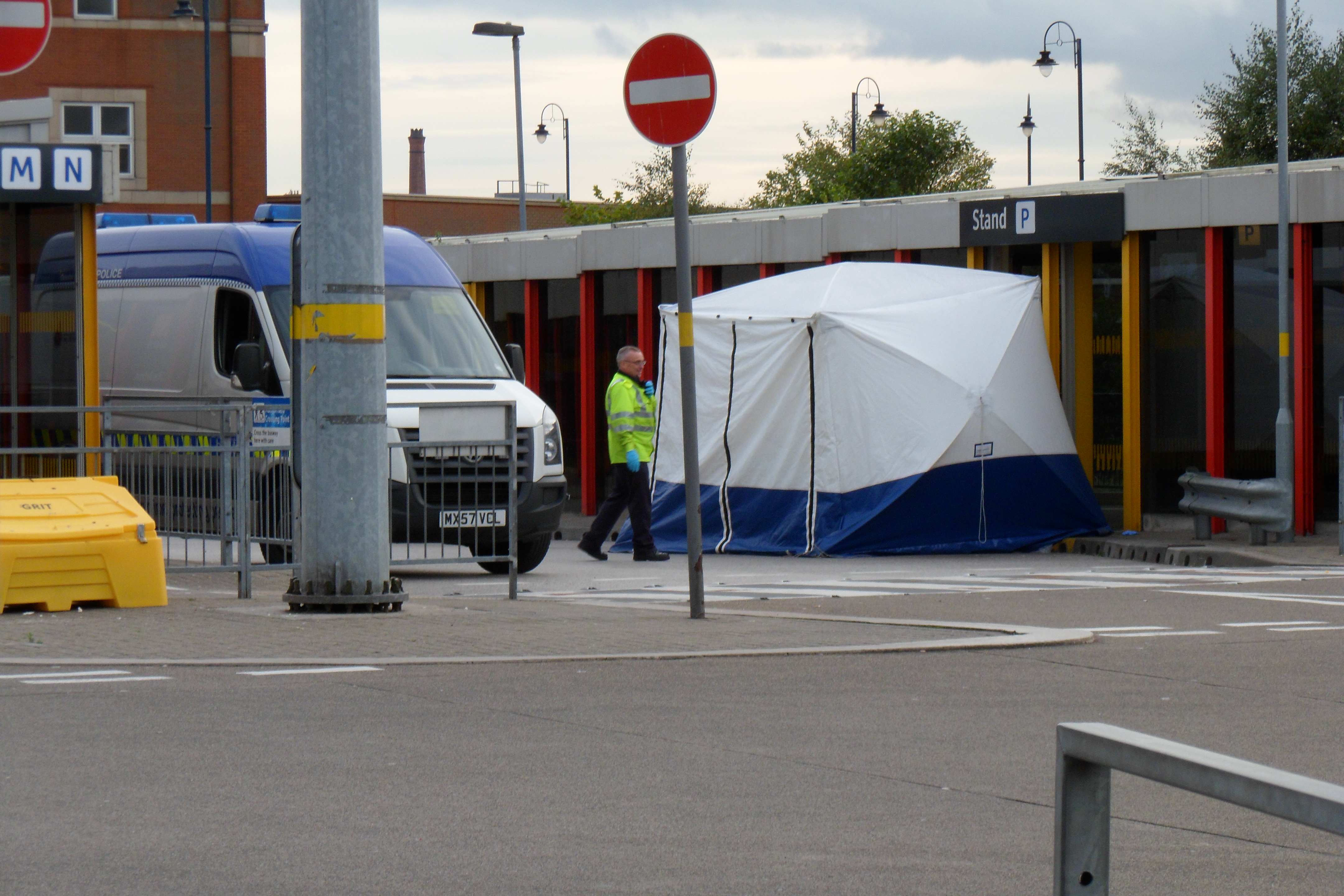 Death case on bus station in Ashton under Lyne (Greater Manchester, England) on 20th October 2011. Police forensic investigation with using of tent for to protect the found place of death body = crime scene. Such tents are used for to make very exactly check of whole body just there, where it have beed founded: to make it free from clothes, to take all possible swabs, to take photographs from all possible points of views, etc. As well: to prevent against wind, rain, dust from arounded area. To safe dignity of death person of course as well (paparazzi...).